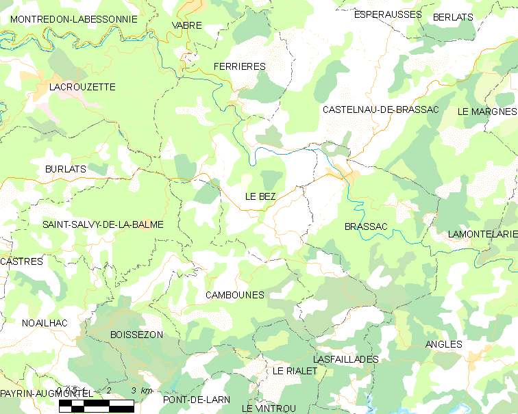 Map commune FR insee code 81031.png - Le Bez